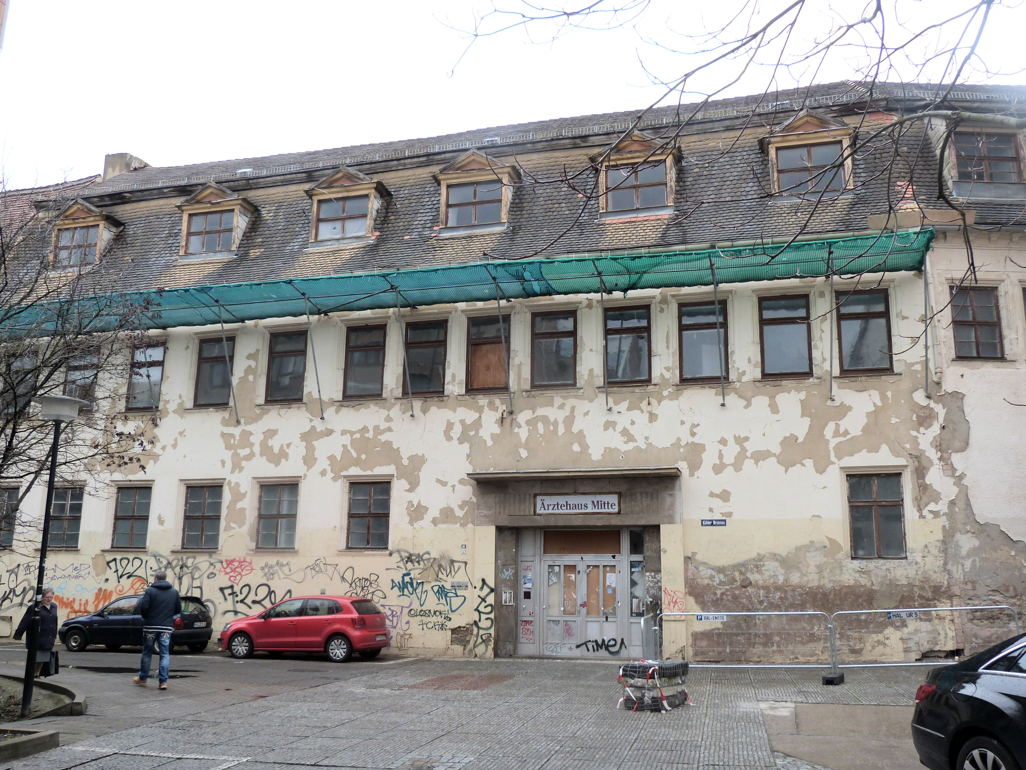 House No. 16, Kleine Klausstrasse, former inn, built after 1532, last Polyclinic, Halle (Saale)